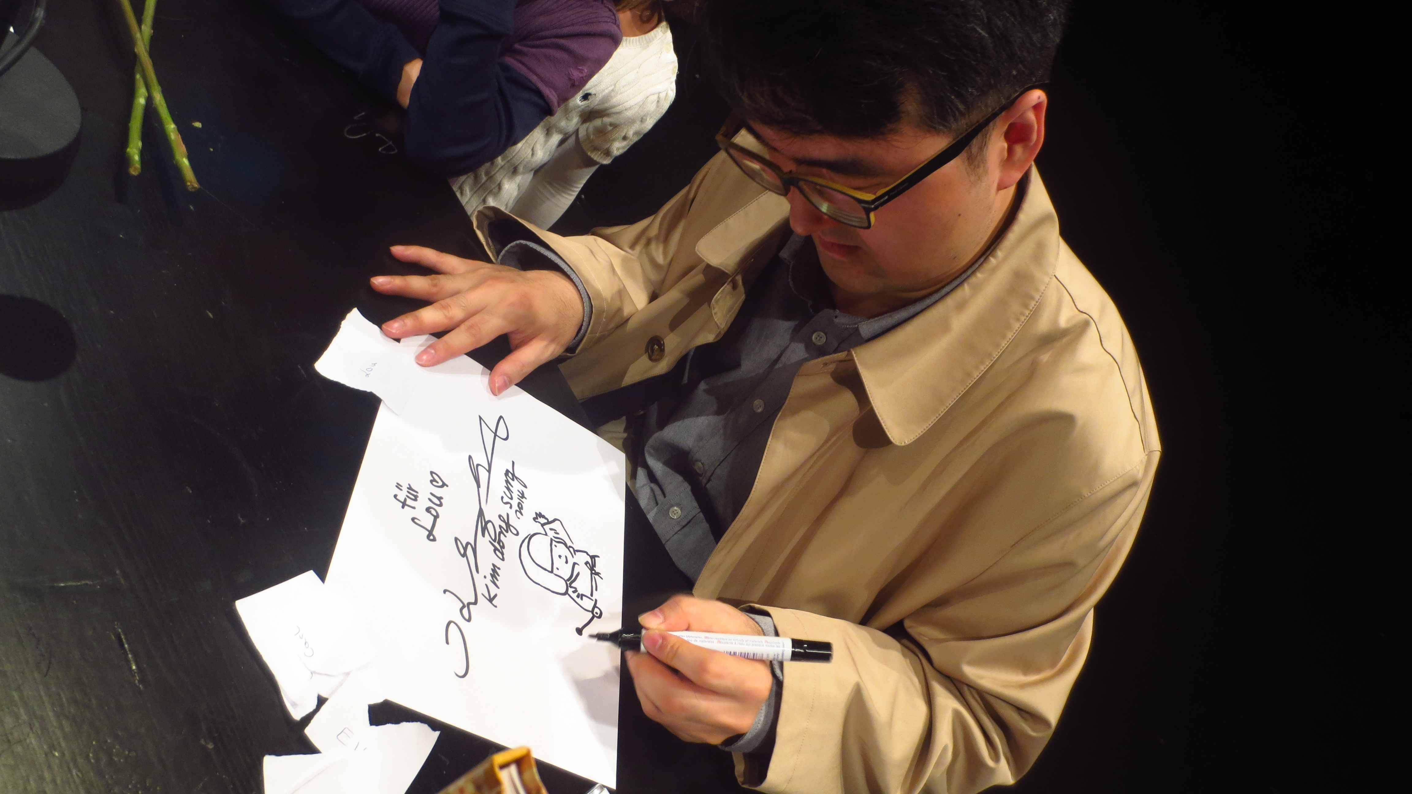 Painter and illustrator Kim Dong-sung in the Haus der Berliner Festspiele during the 14th international literature festival berlin on September 11th, 2015